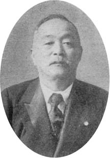 Mr. Naoki Kano, Advisor of the Education Association of Kyoto Prefecture.